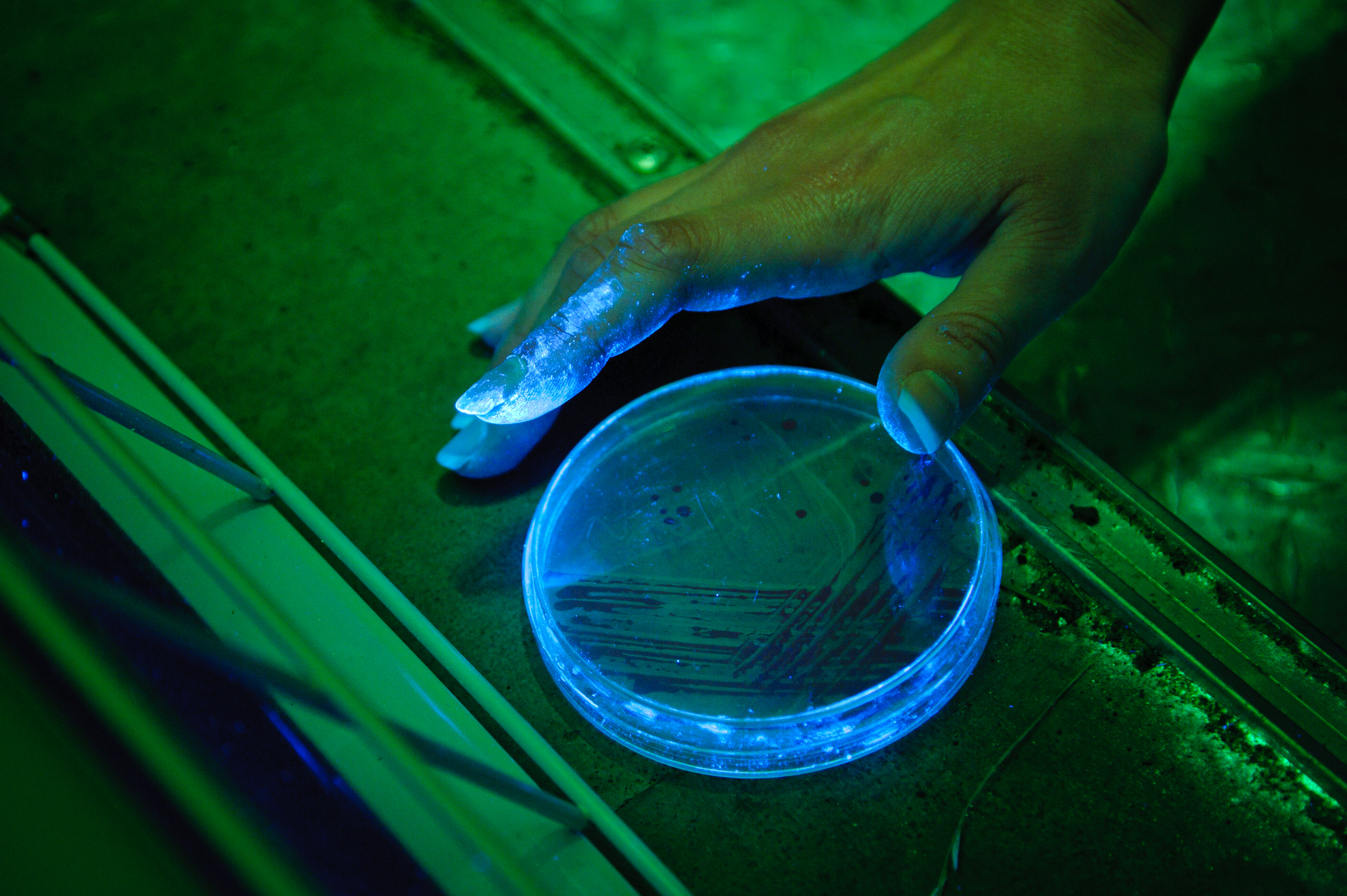 The ERT program supports teams in all 56 FBI field offices. These highly trained and equipped teams operate at an exceptional level of competence to ensure evidence is collected in such a manner that it can be introduced in courts throughout the U.S. and the world. ERTs strive to be the model for crime scene processing from the standpoint of safety, expertise, training, equipment, and capability. Learn more at